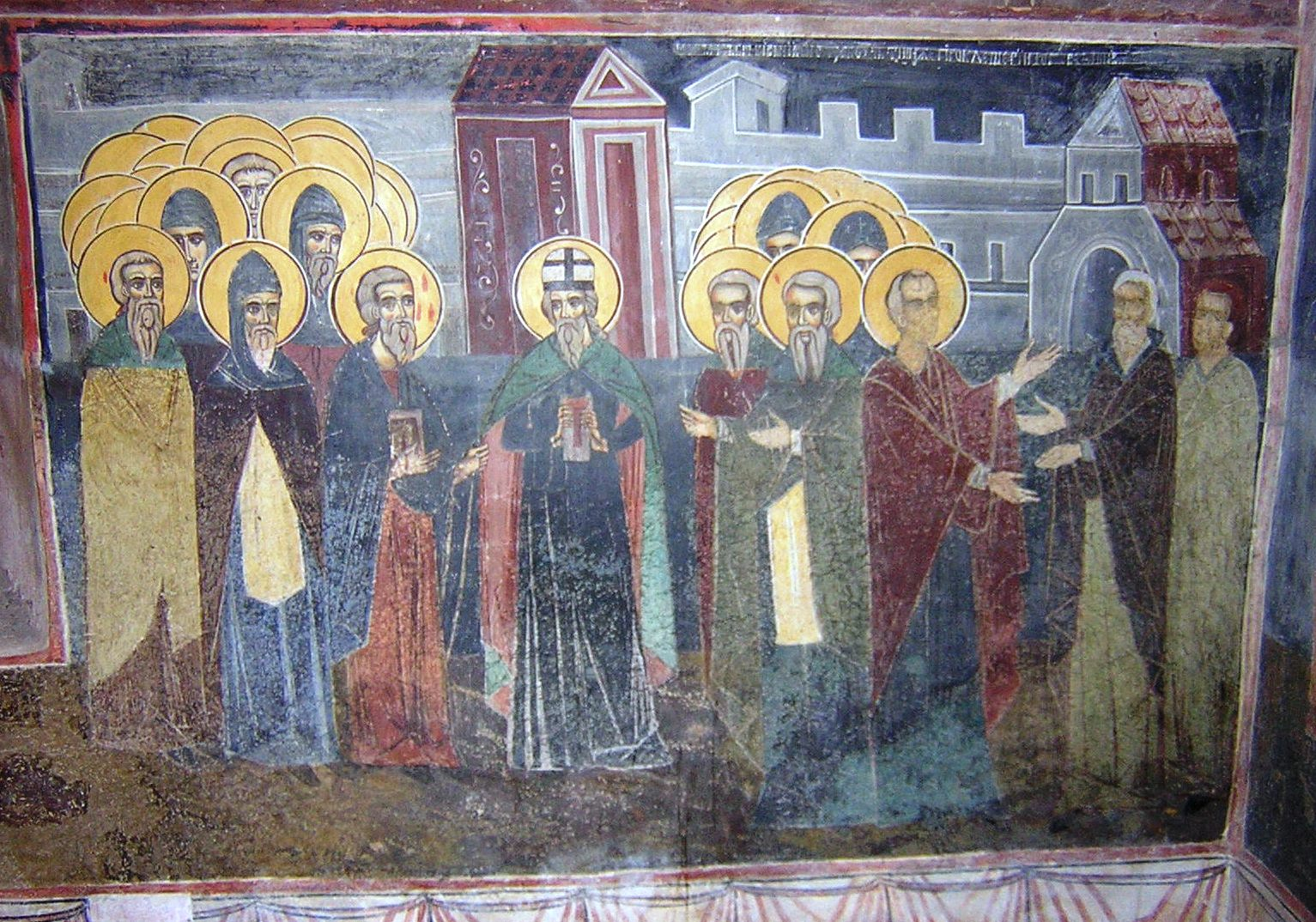 Tsar Boris I meeting the disciples of Saints Cyril and Methodius, fresco